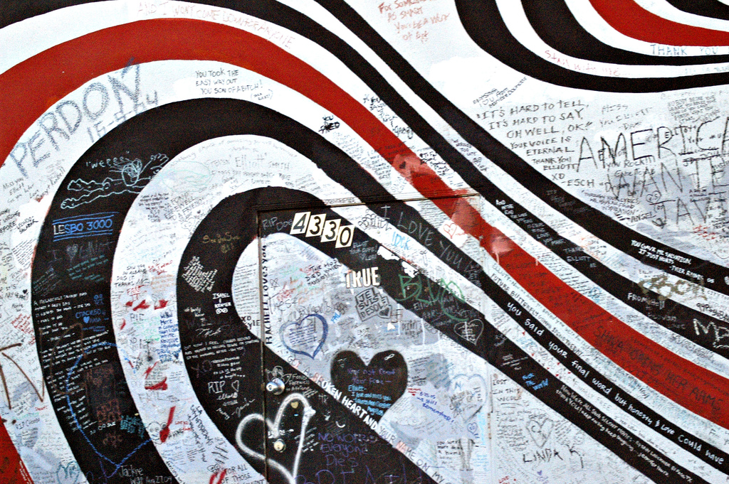 The wall of Solutions Audio in Los Angeles, California. A memorial to musical artist Elliott Smith.